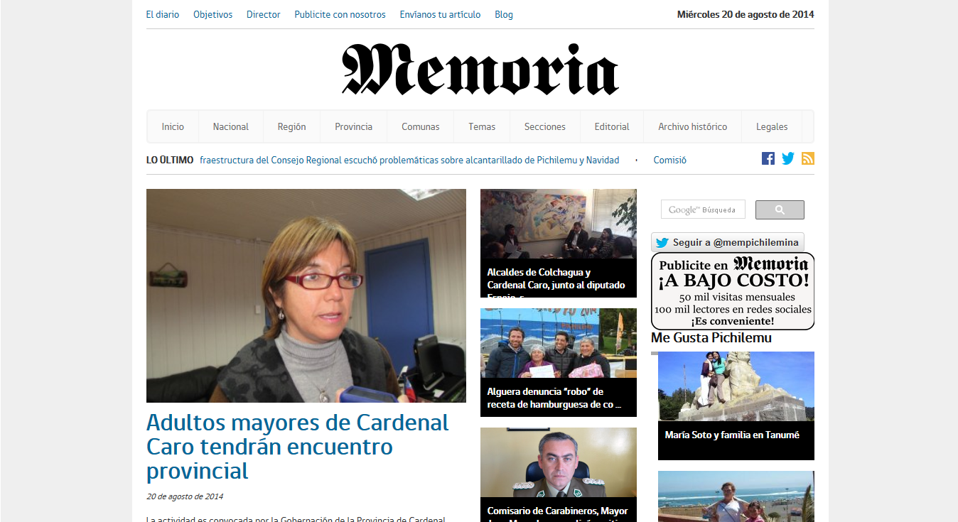 Screenshot of online newspaper "Memoria", on 20 August 2014.